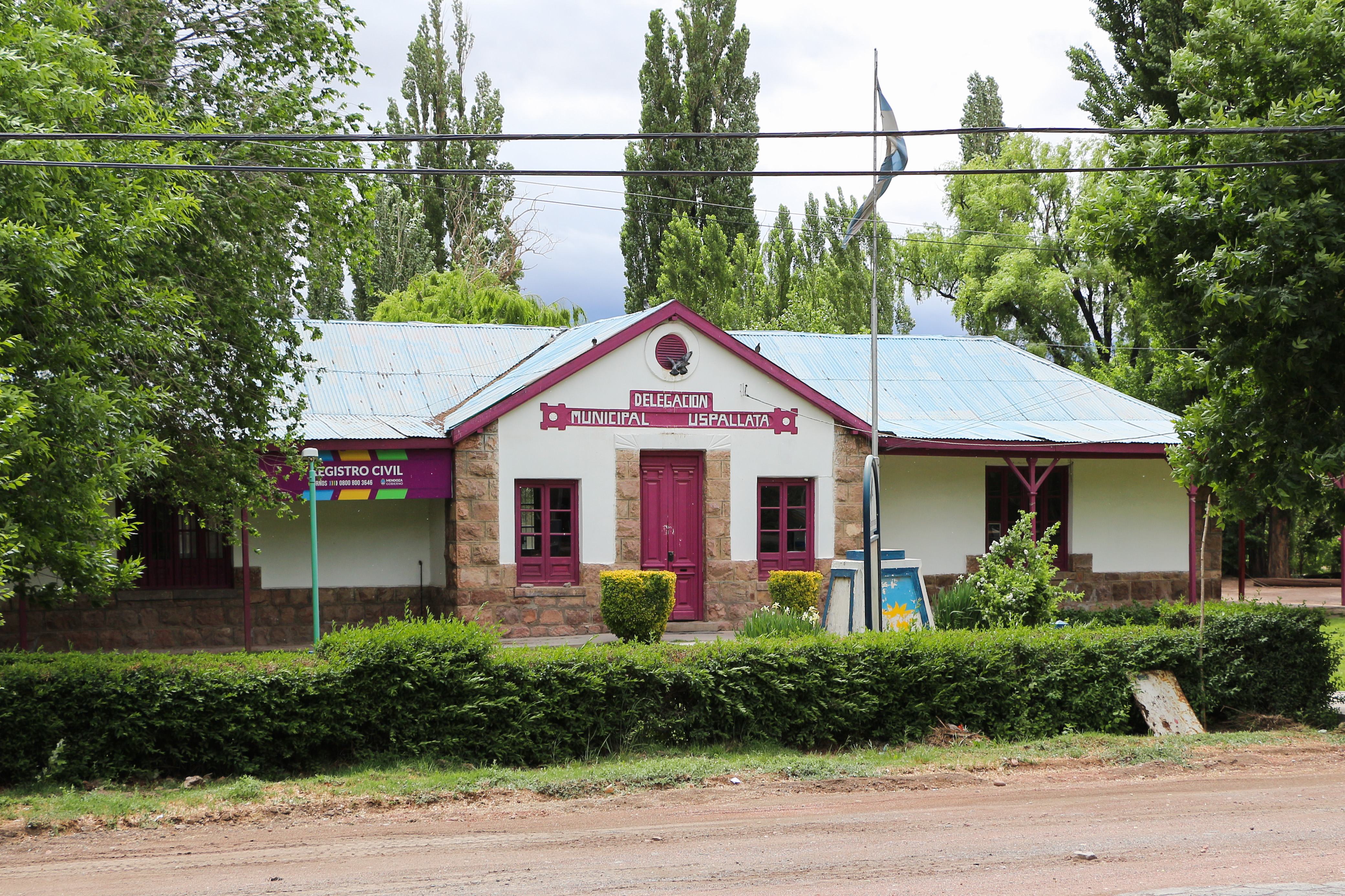 Delegation municipal, Uspallata